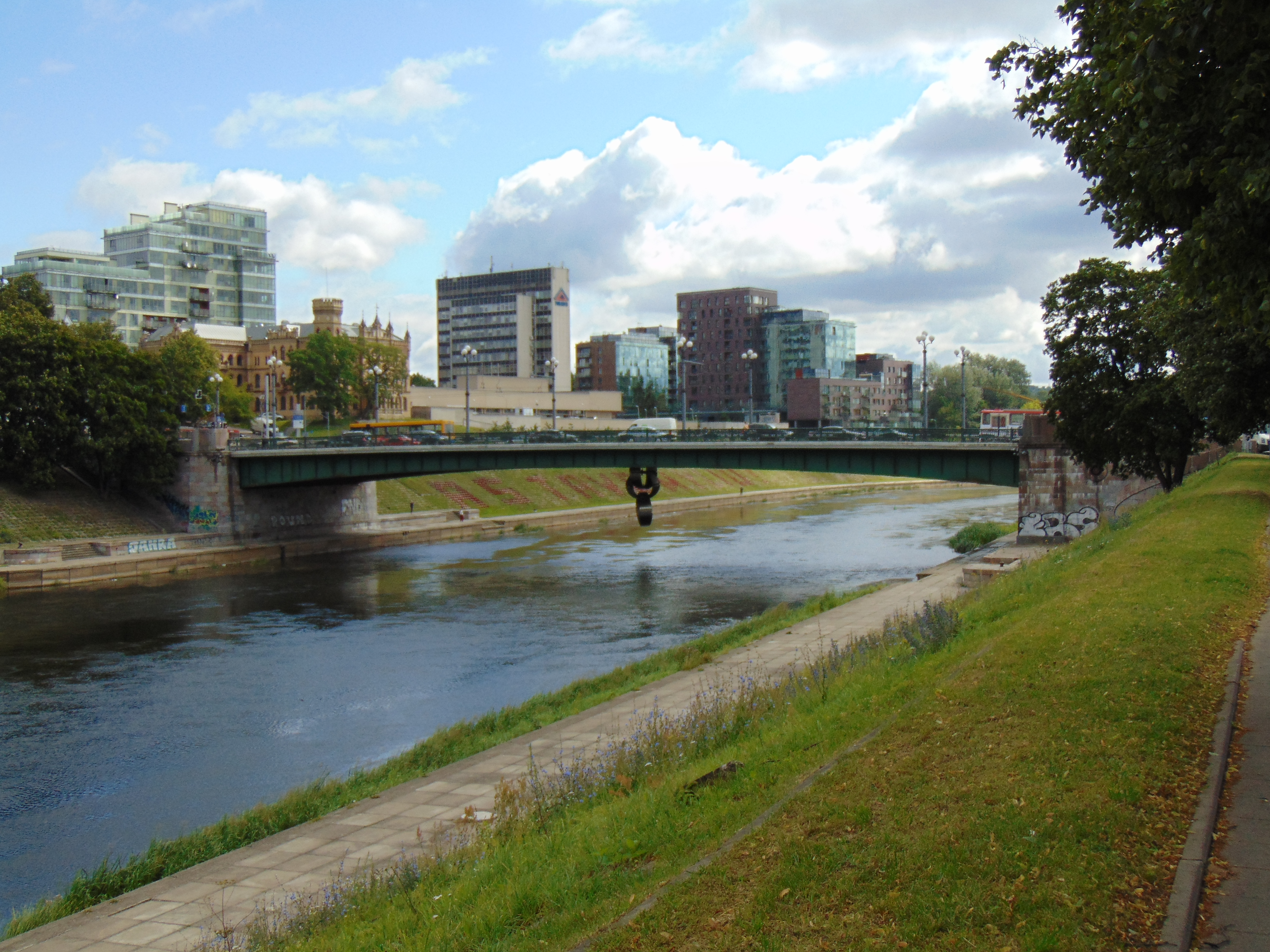 Green Bridge of Vilnius